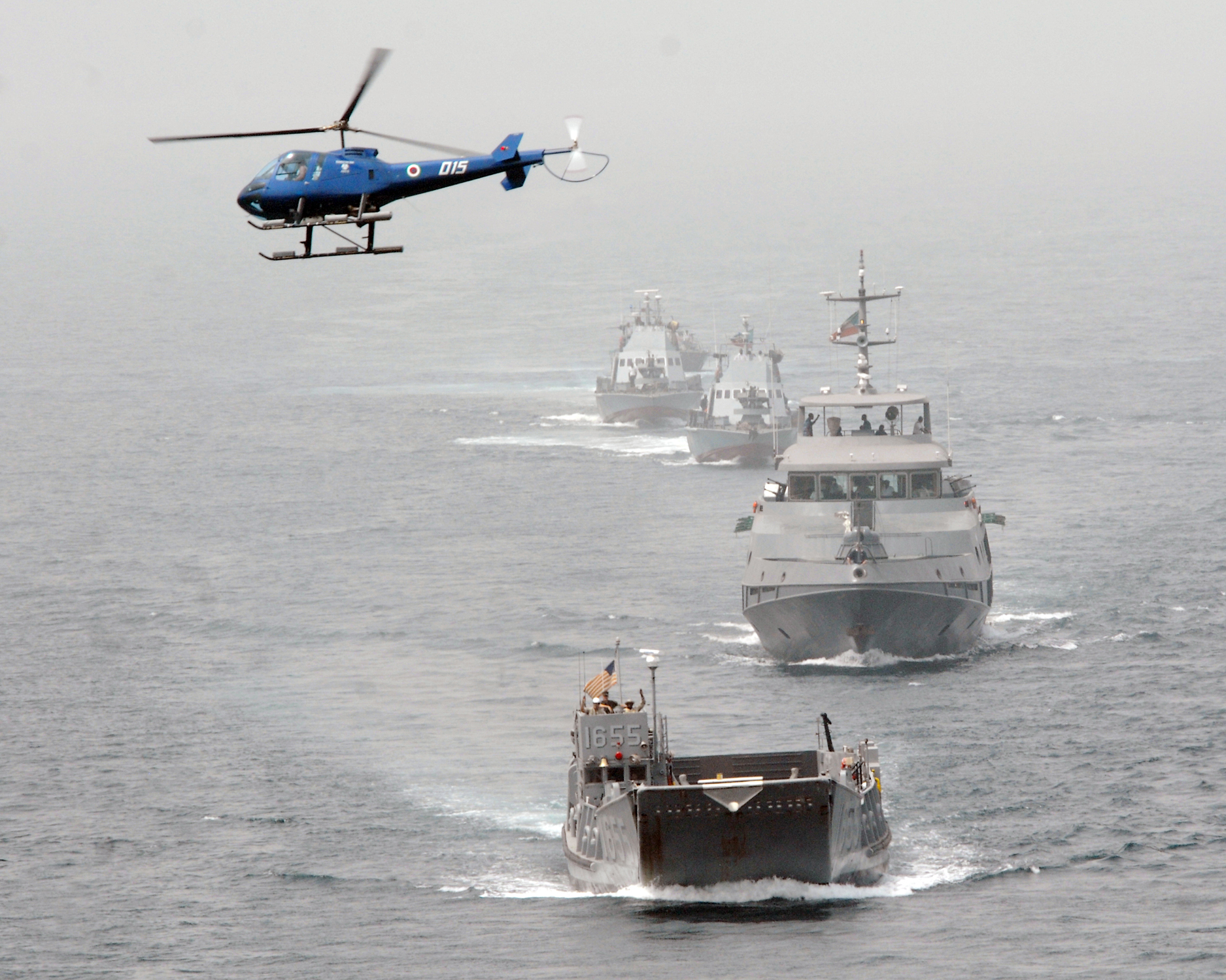 GULF OF GUINEA (Feb. 2, 2008) Landing Craft Utility (LCU) 1655 leads the Equatorial Guinea Navy in formation behind Africa Partnership Station (APS) flagship USS Fort McHenry (LSD 43), a dock landing ship, as they pass along the Equatorial Guinea coast. APS is part of the Navy's new cooperative maritime strategy to bring the latest training and techniques to maritime professionals in nine West and Central African countries and to address the common threats of illegal fishing, smuggling and human trafficking. In addition to maritime training, APS will perform more than 20 humanitarian projects in the region. U.S. Navy photo by Mass Communication Specialist 2nd Class RJ Stratchko (Released)